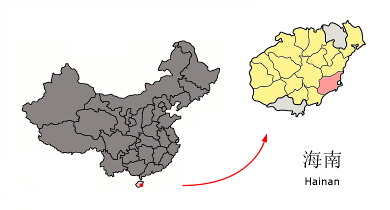 Location of Wanning City (pink) and the subdivisions directly administered by the province (yellow) within Hainan province of China Map drawn in september 2007 using various sources, mainly : Hainan Counties map from